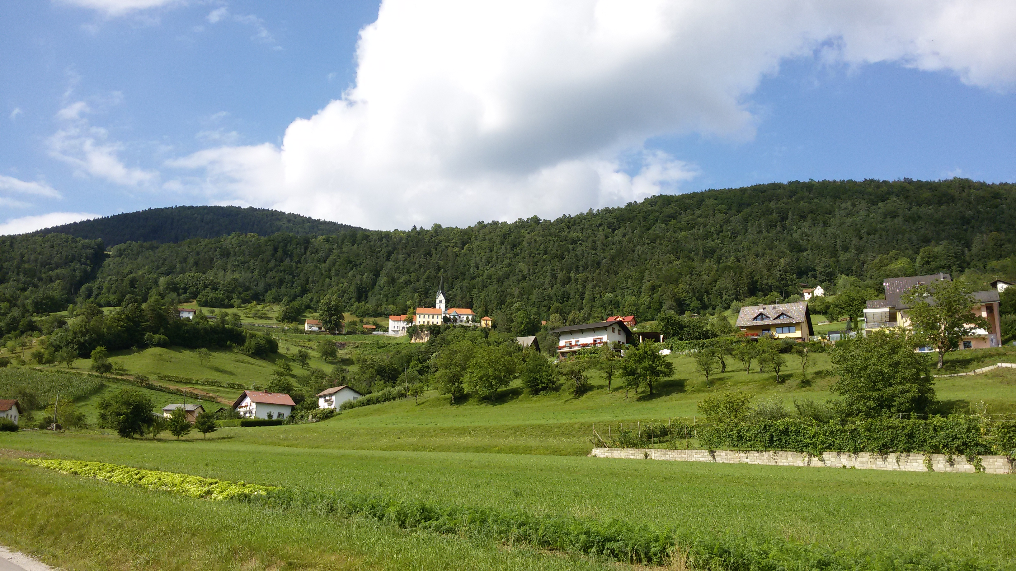 The setlement of Vinska Gora with the church of St. John the Baptist, near Velenje, Slovenia.